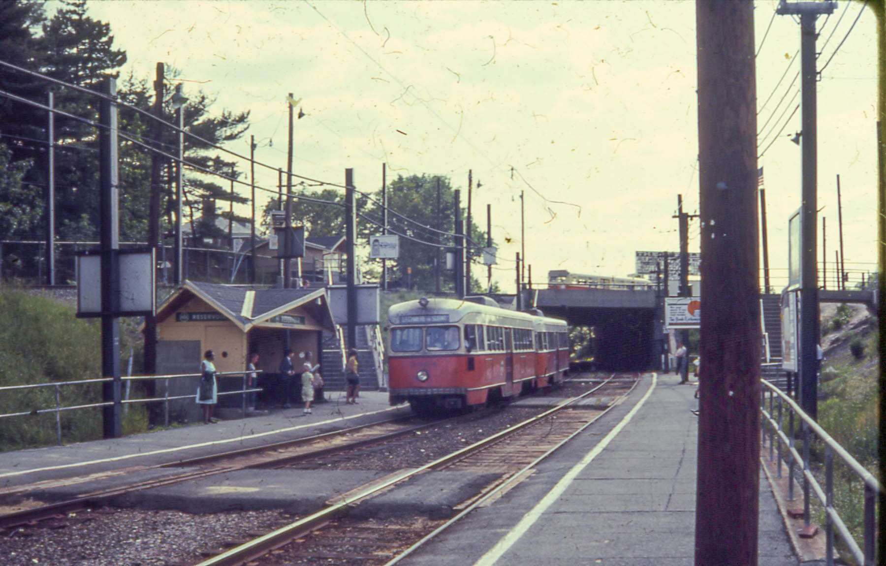 An inbound train stops at Reservoir station in 1967